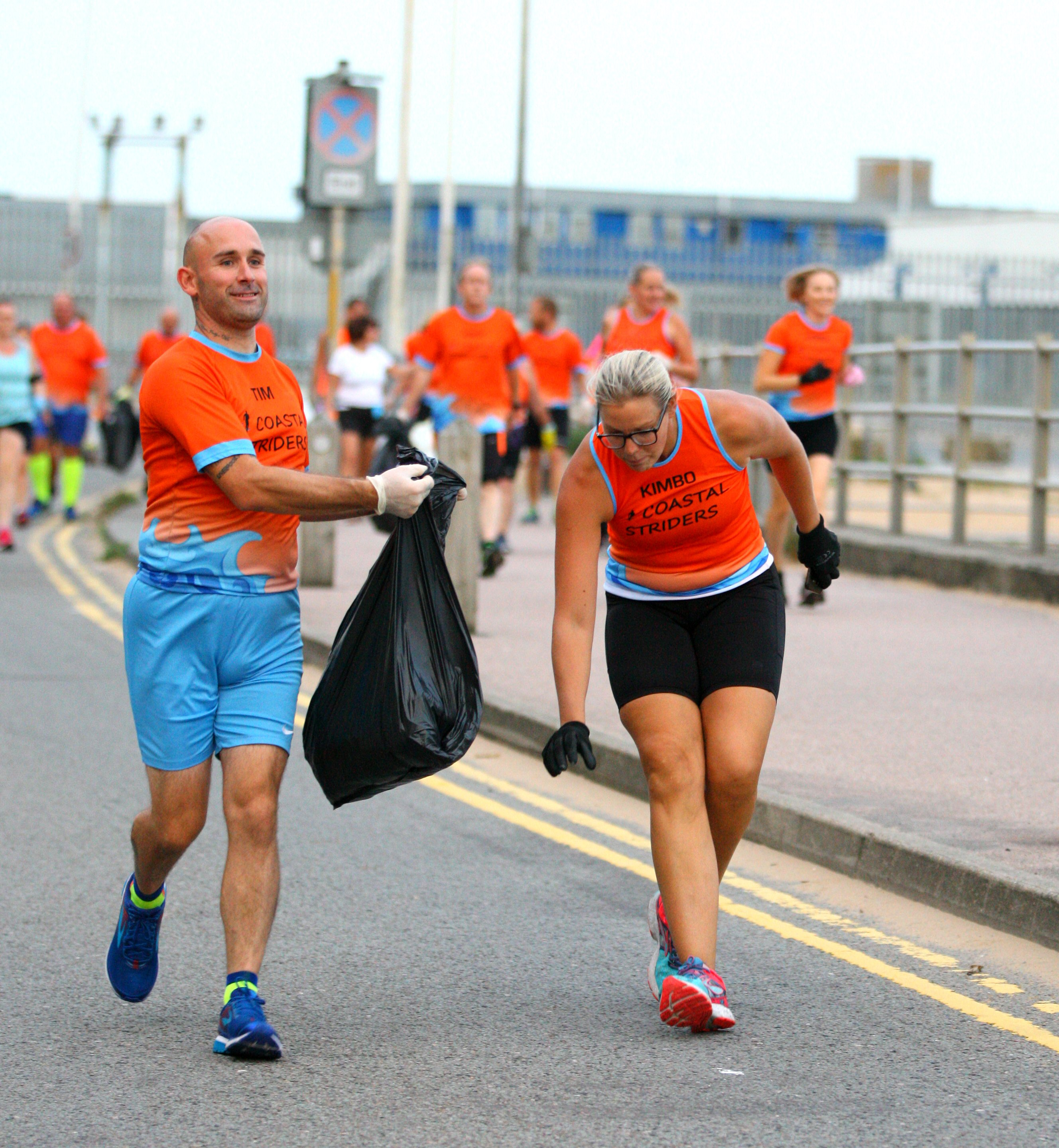 FUNK9730